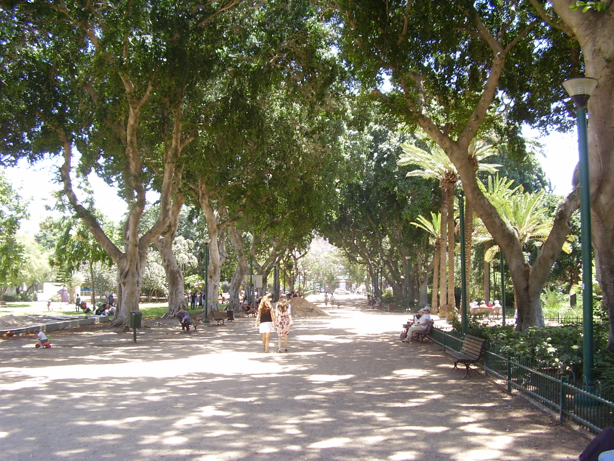 meir garden, tel-aviv